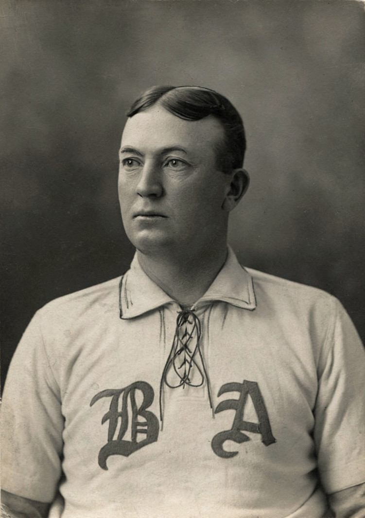 Denton True "Cy" Young, head-and-shoulders portrait, facing left, wearing Boston Americans baseball team uniform.